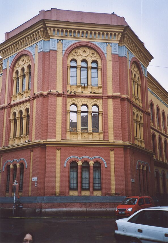 Hungarian National Rabbinical Seminary (2005); Budapest